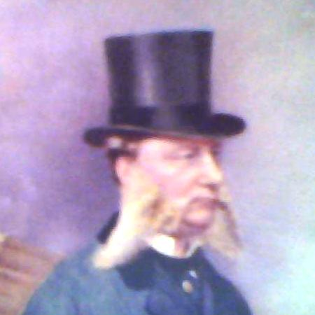 John Harpur Crewe by unknown as reproduced in Melbourne 1820-1875 A Diary by John Joseph Briggs Ed by Philip Heath pub. Derbyshire Hist Research Group 2005, ISBN 0-903463-78-4. Painting in the collection of the National Trust.